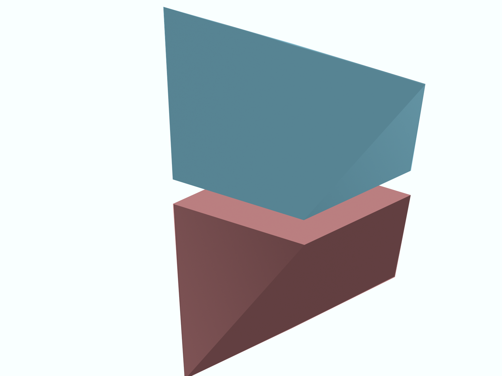 Tetrahedron Cross Section